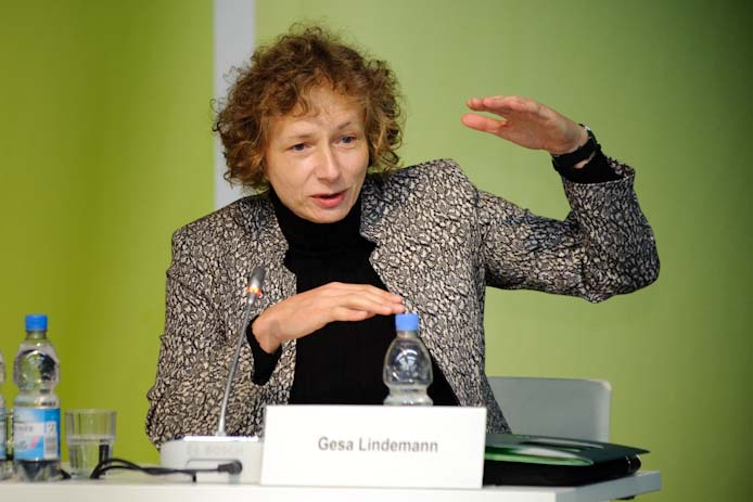 Foto: Stephan Röhl